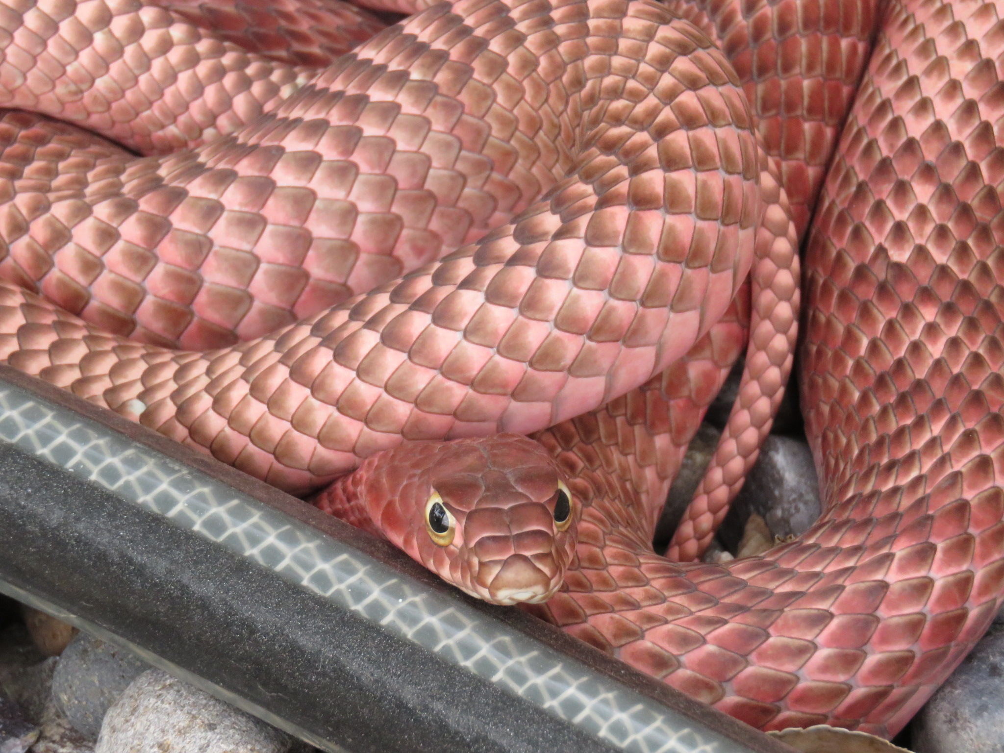 Red Racer - Coachwhip (Masticophis flagellum piceus), 05.11.2016, South of Santa Fe, NM